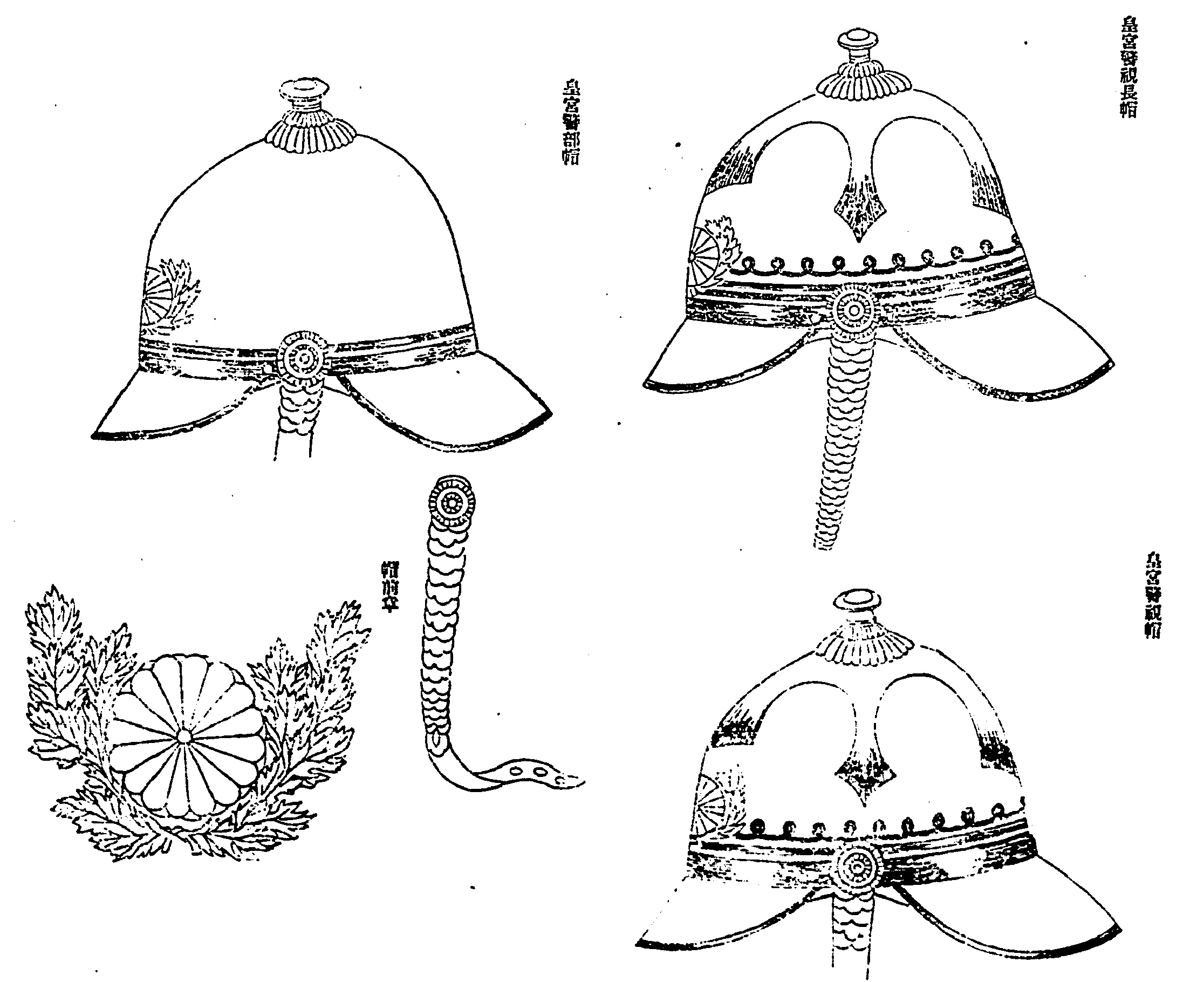 Imperial Guard officer full dress uniform Type 1911